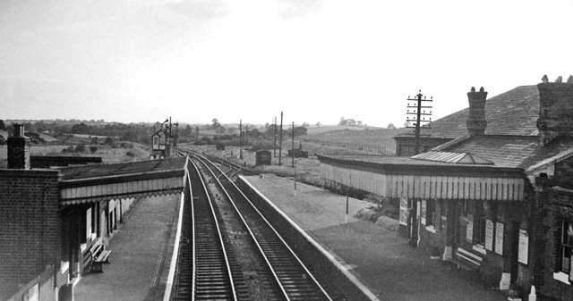 Bearley Station. View SW, towards Stratford-on-Avon, on line from Hatton, Warwick and Leamington; the line curving to the right is the branch to Alcester, which lost its passenger service on 25/9/39 and goods 1/3/51.